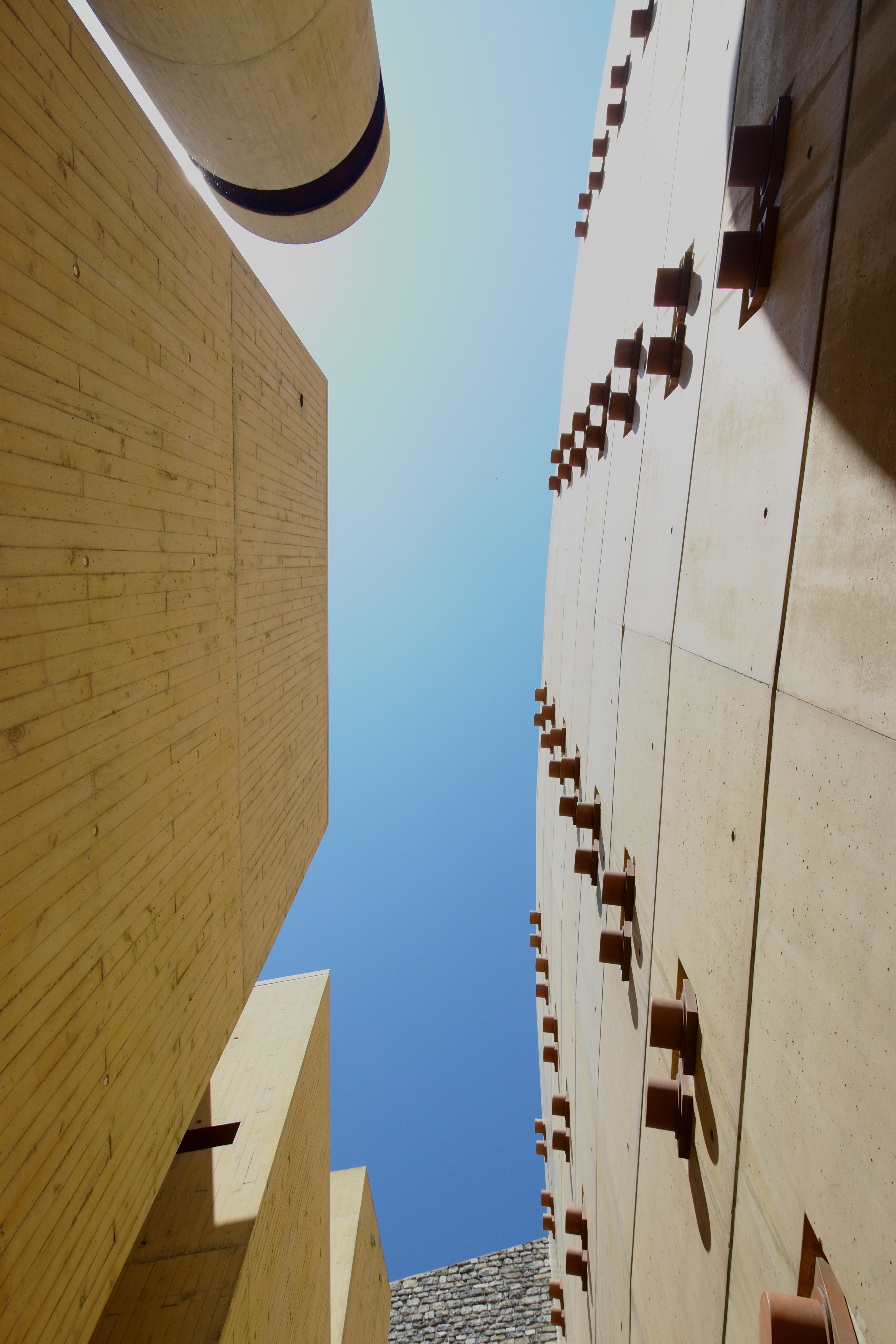 Landtag of the Principalty of Liechtenstein in Vaduz (building known as “Hohes Haus”)